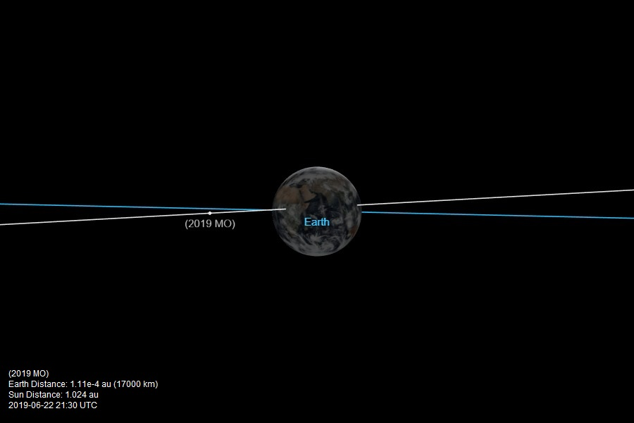 JPL Small-Body Database Browser's Orbit Diagram for the NEO (2019 MO) Earth Distance: 1.11e-4 au (17000 km) Sun Distance: 1.024 au 2019-06-22 21:30 UTC - Screenshot Capture on 2019-06-25